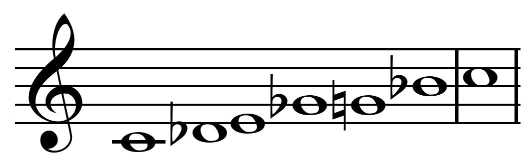 Tritone scale on C.